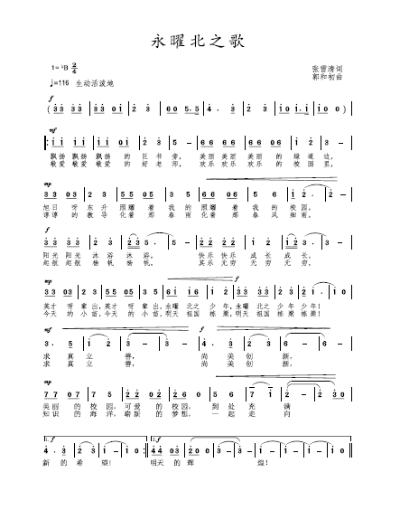 Alternative name: Song of Wing Yiu Pak. Sheet music of the school song of Yong Yao Bei Primary School (Wing Yiu Pak Primary School) in Canton, China. 粵語: 廣州市永曜北小學校歌《永曜北之歌》樂譜